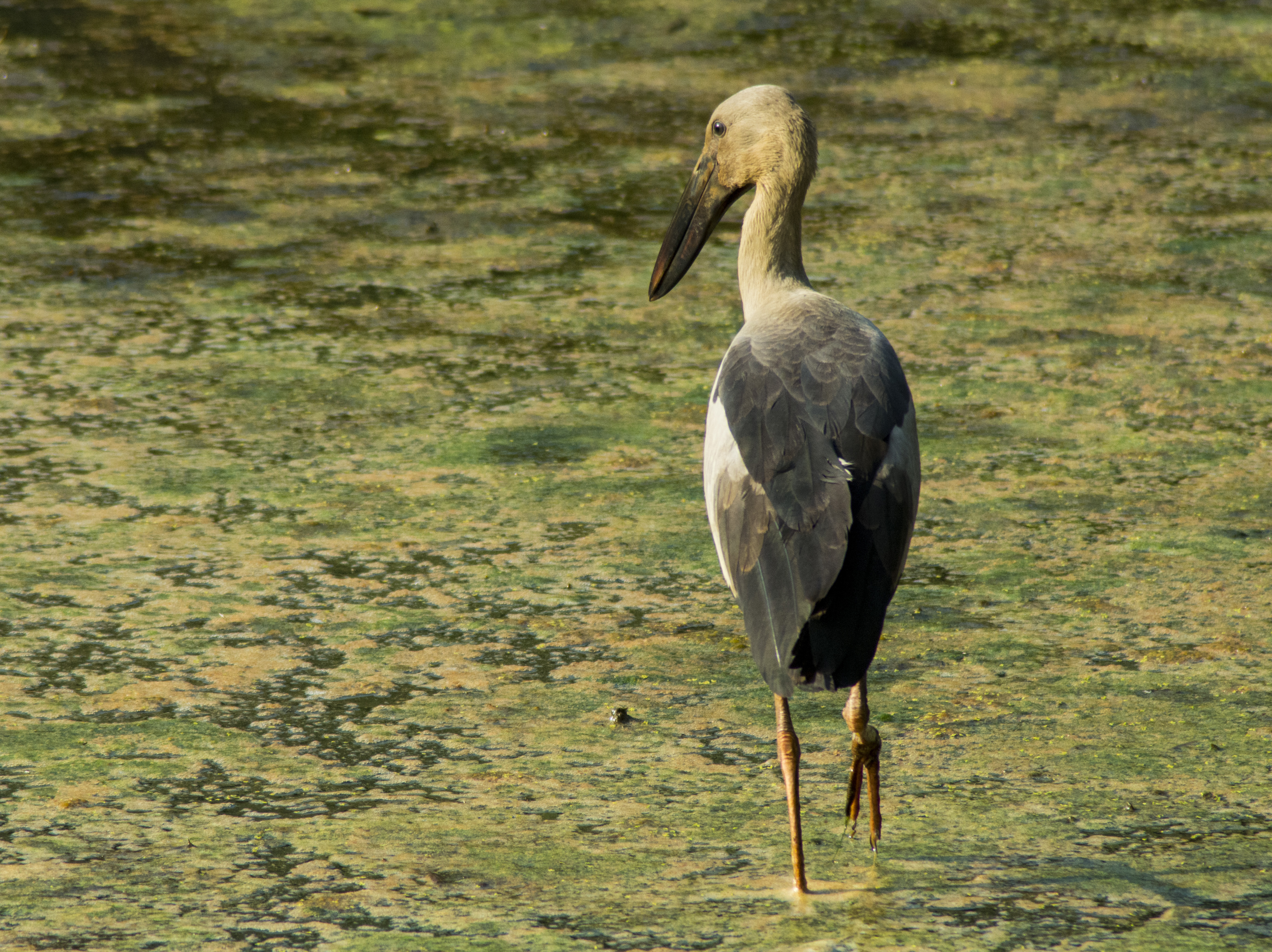 The Asian openbill or Asian openbill stork (Anastomus oscitans) is a large wading bird in the stork family Ciconiidae.